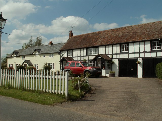 Cottages at Stambourne Green, Essex. Stambourne Green is a part of the village of Stambourne, which is quite a sprawling village in north Essex.